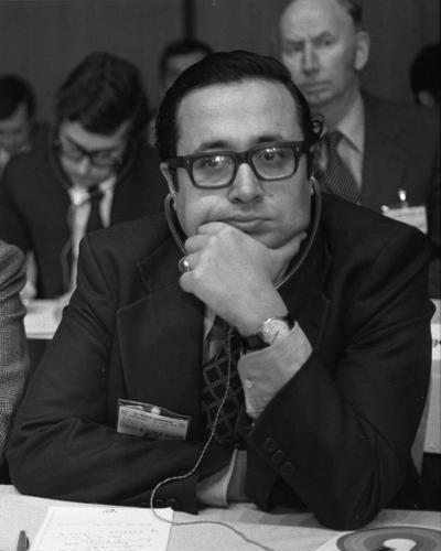 Adelino Amaro da Costa, Politic, Portugal.